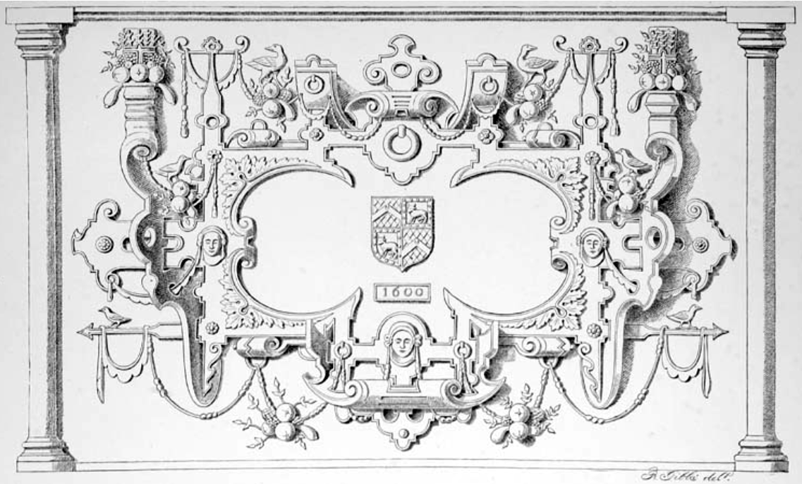 Drawing by Roscoe Gibbs of 1600 monument in St Budeaux Church, near Plymouth in Devon, to the Gorges family of Budockshed (alias Budshead, Budeokshead, Budokeside, etc) in the parish of St Budeaux. The arms display Gorges quartering Cole.